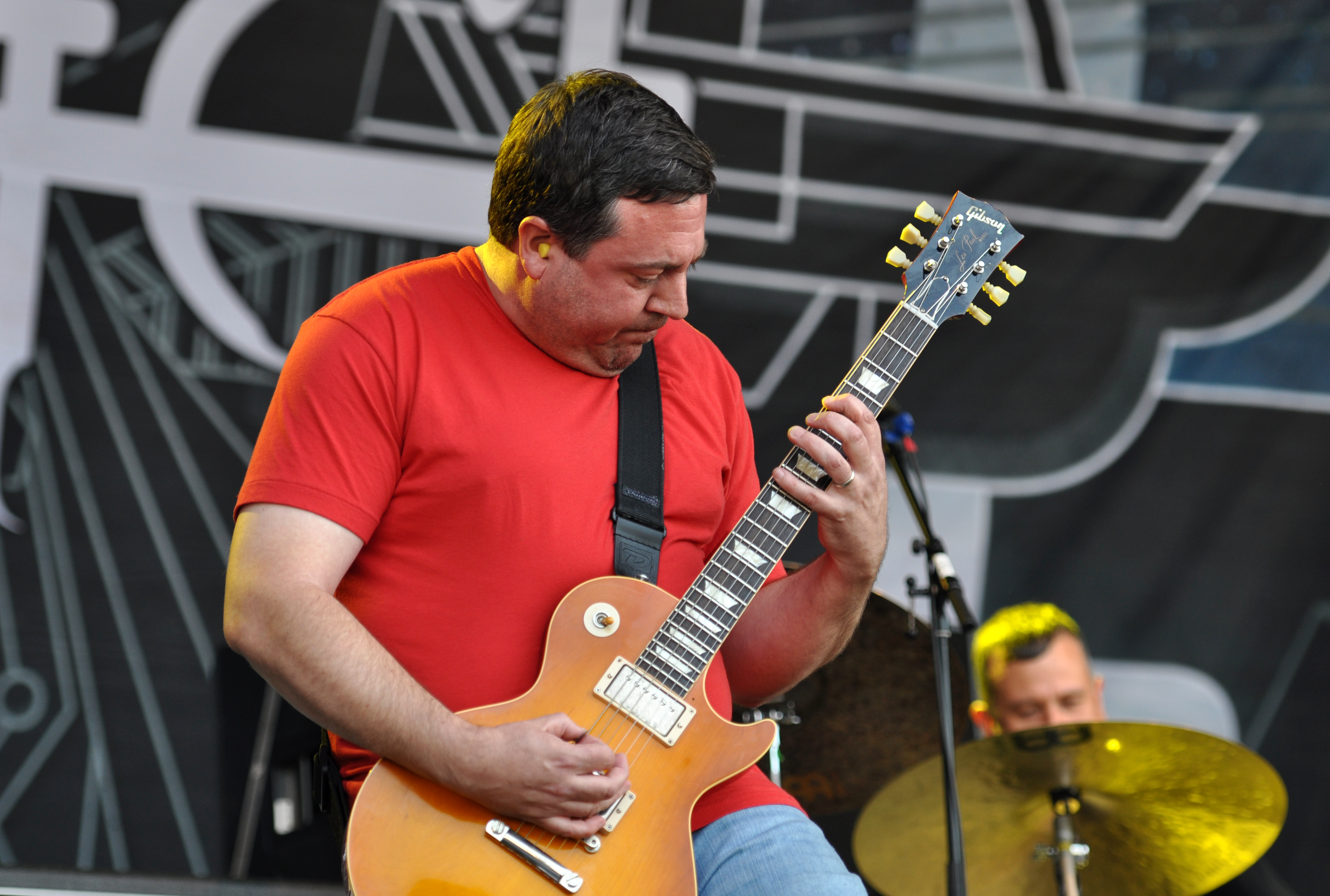 US stoner rock band Clutch at Rock am Ring 2013